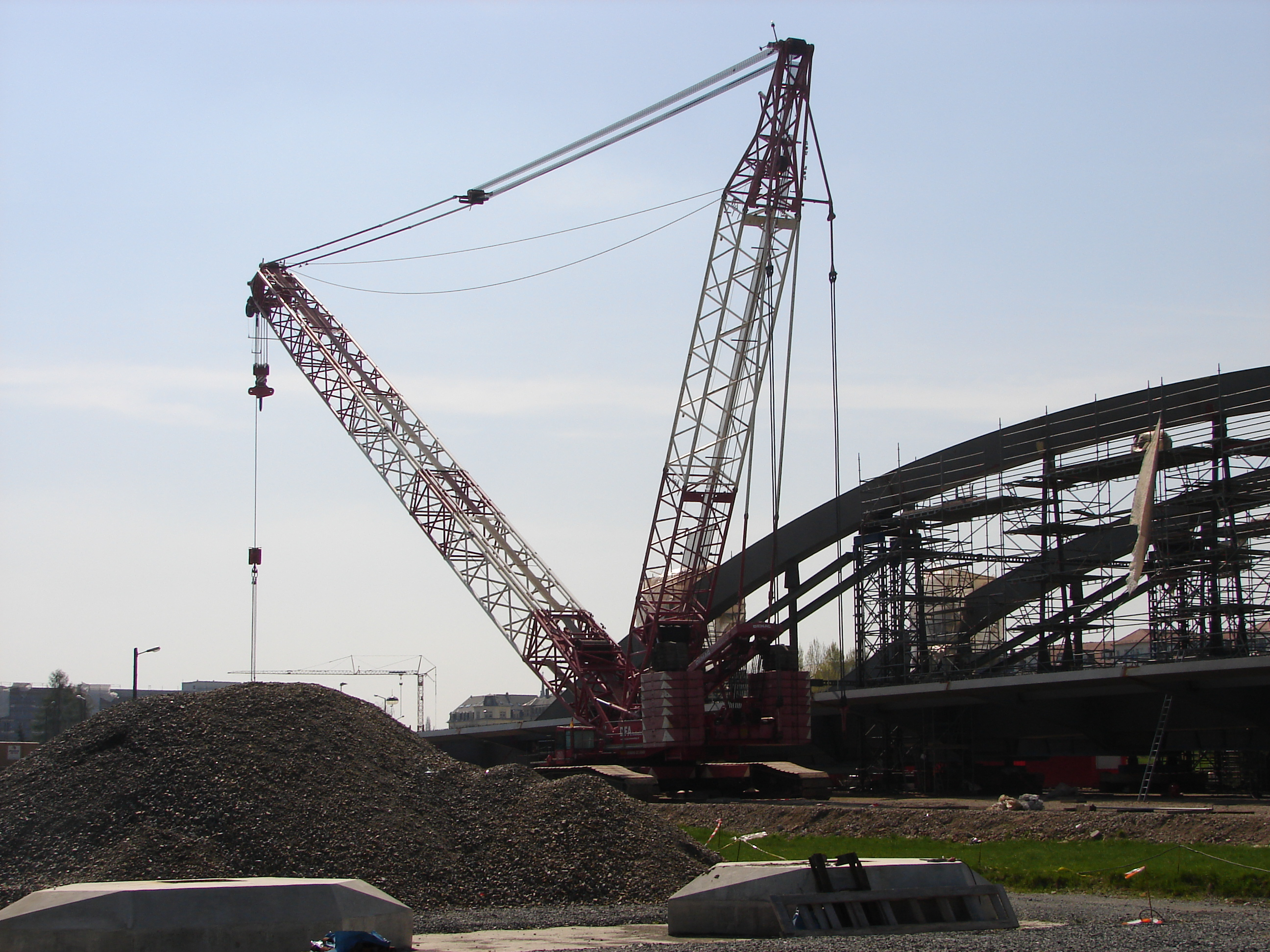 Crawler crane at the construction site of the Waldschloesschen Bridge in Dresden.